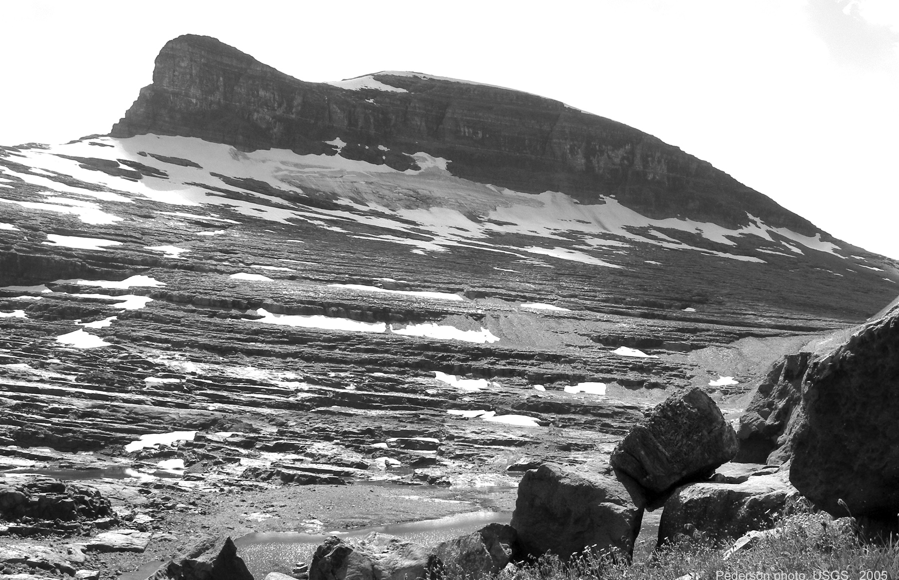 Boulder Glacier in Glacier National Park (U.S.) as seen in 2005.